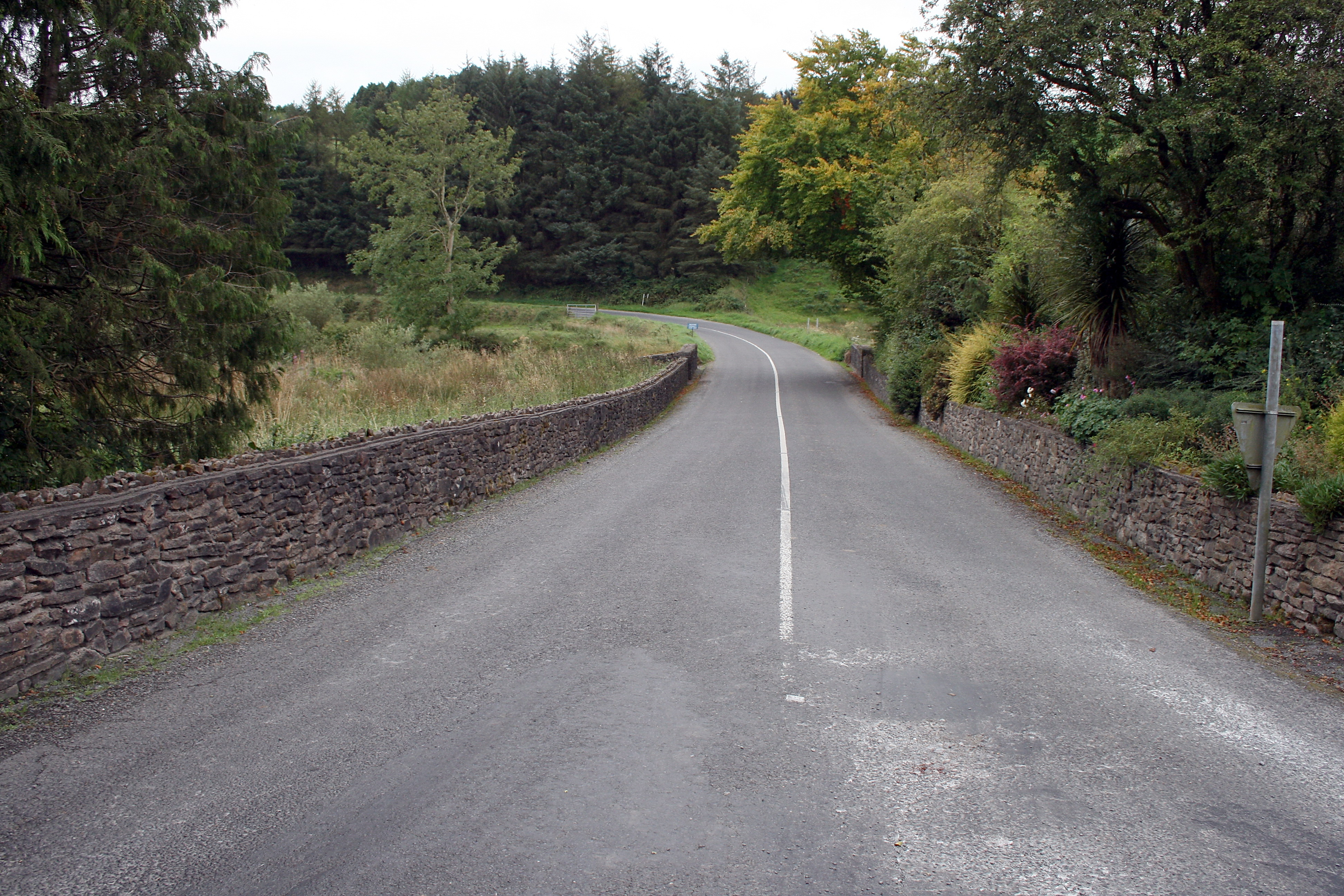 The R479 leaving Milestone, County Tipperary, Ireland